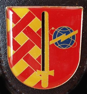 94th Signal Staff